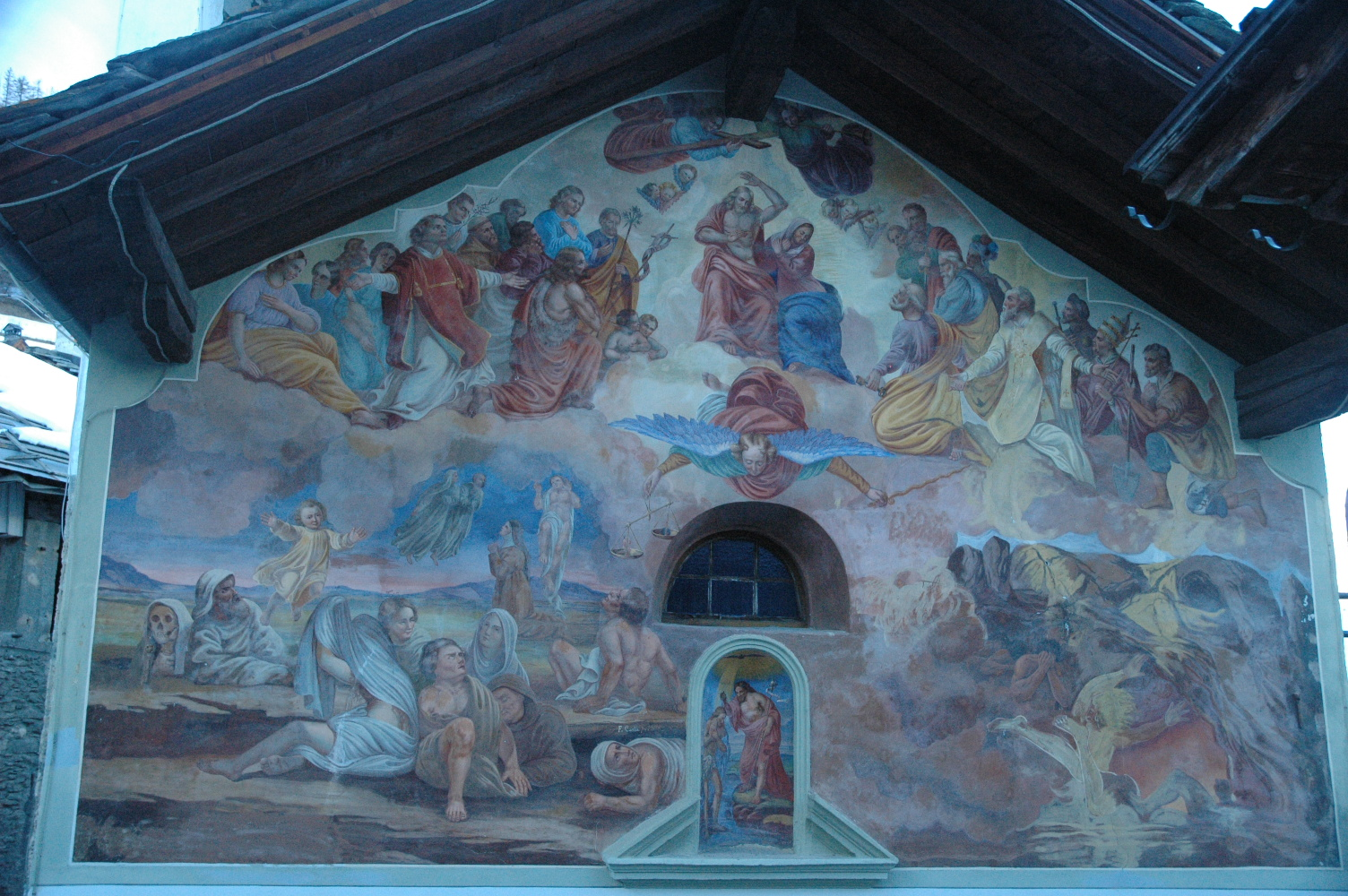 Final Judice in Lignod church in Ayas AO - Italy